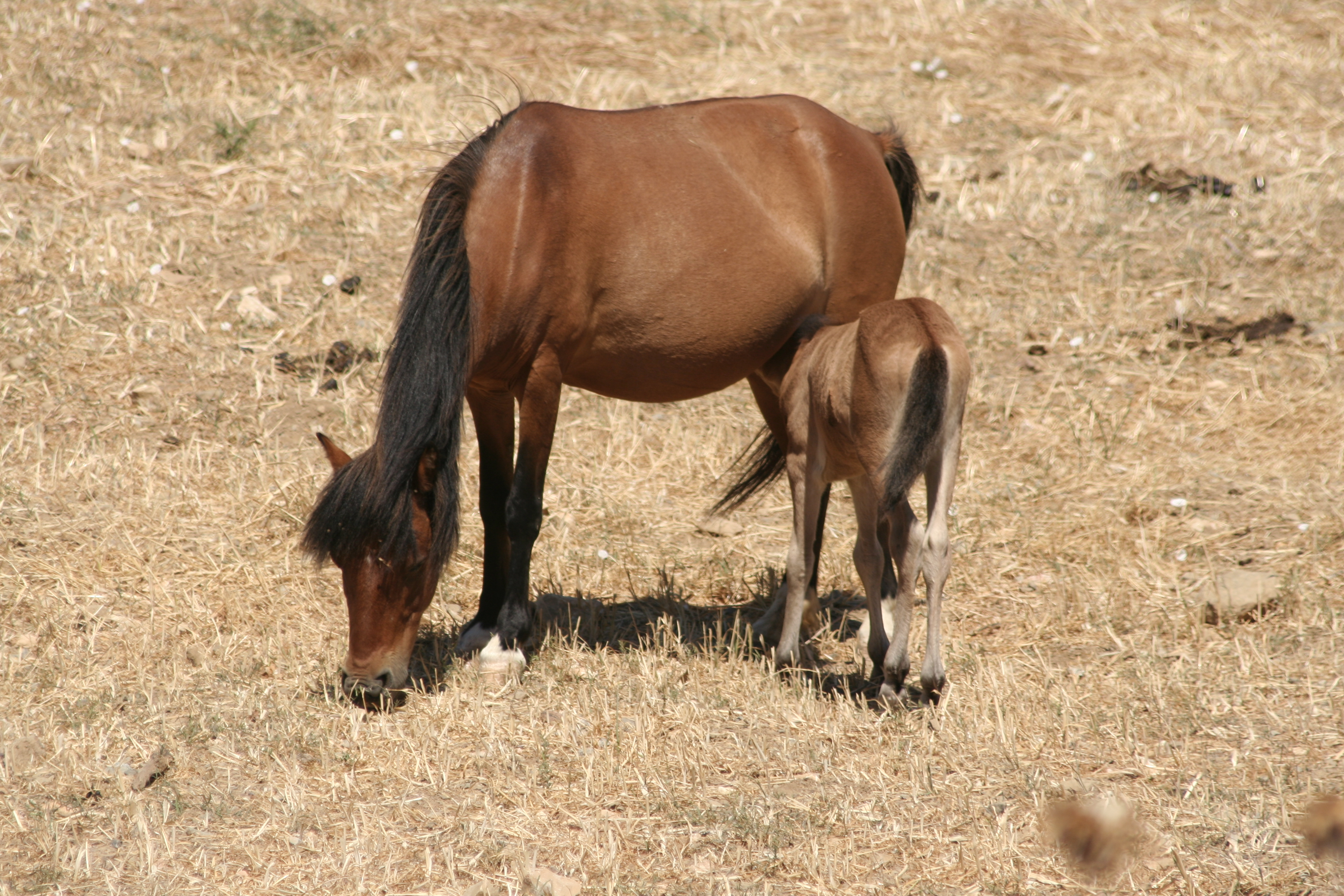 Mother and foal. This type of pony is only found on Skyros, Greece.